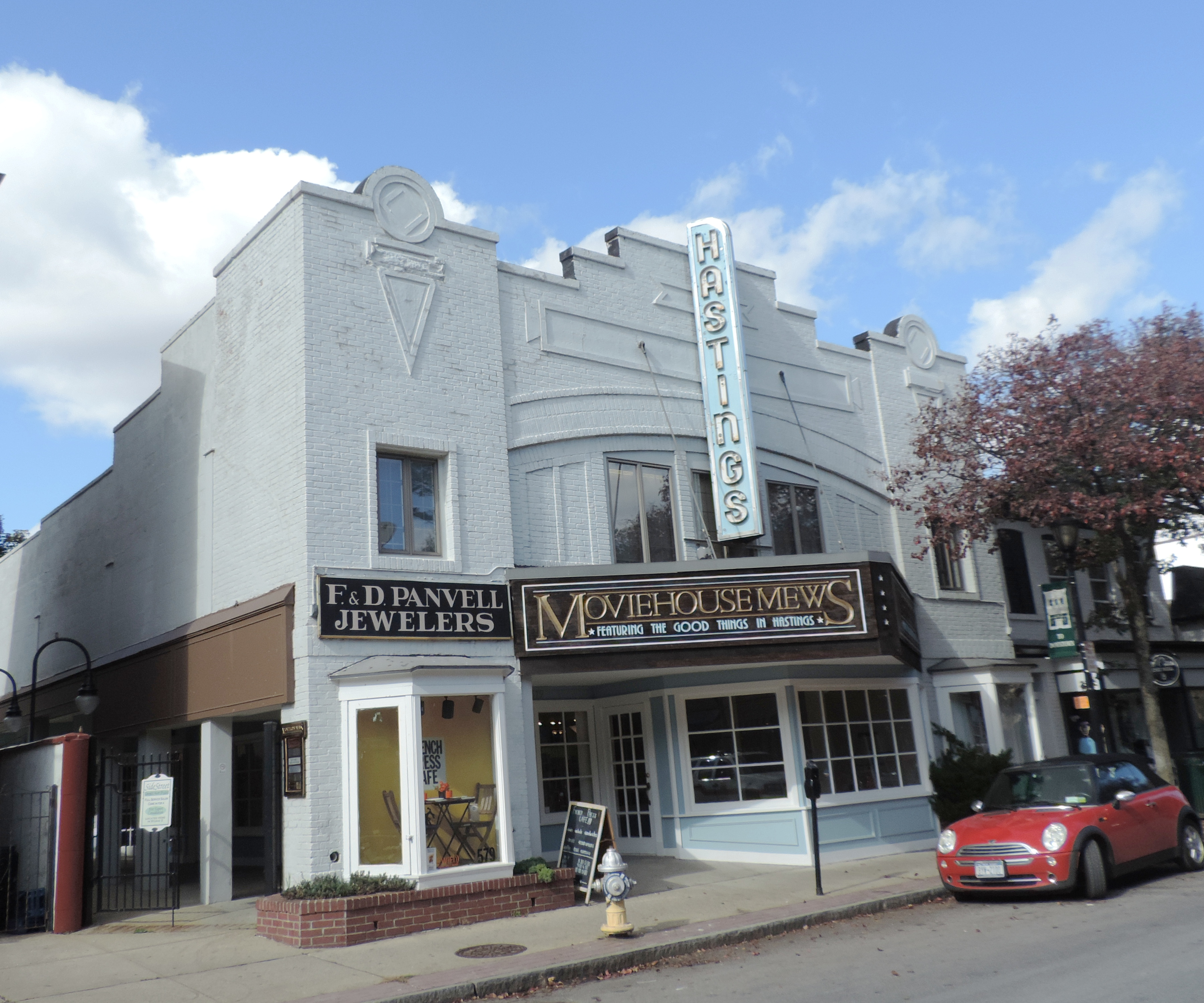 Looking northwest at shops on a mostly clear midday.